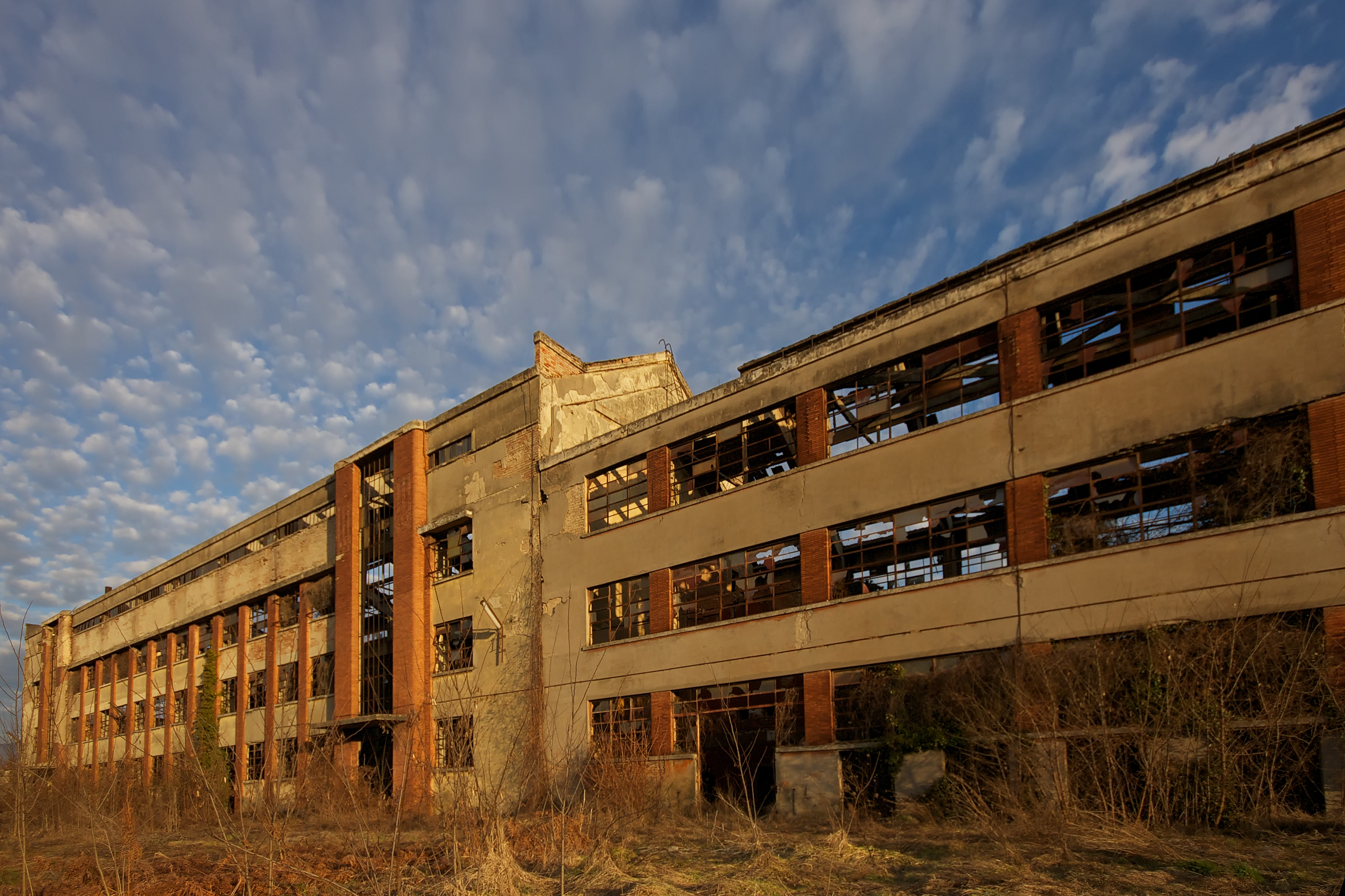 Dismantled Montecatini chemicals factory, Rieti (Lazio, Italy)